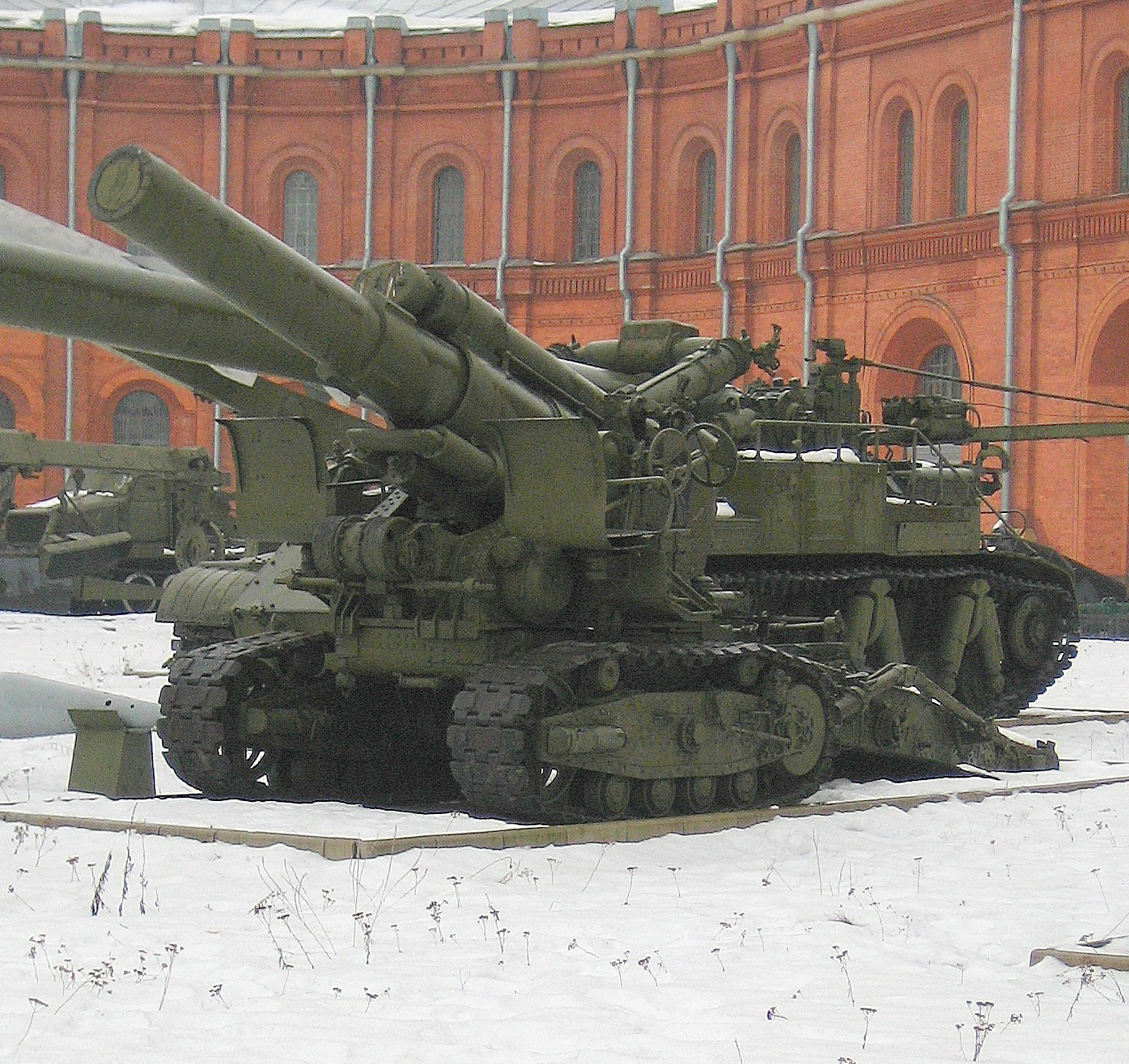 Soviet 280 mm Br-5 Mark 1939 mortar, displayed in Saint Petersburg Artillery Museum. Photo taken on 3 Marсh, 2007. Source: Photo by me, User:Saiga20K.